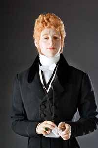 Historical figure of Beau Brummell also know as Bonnie Price Charlie